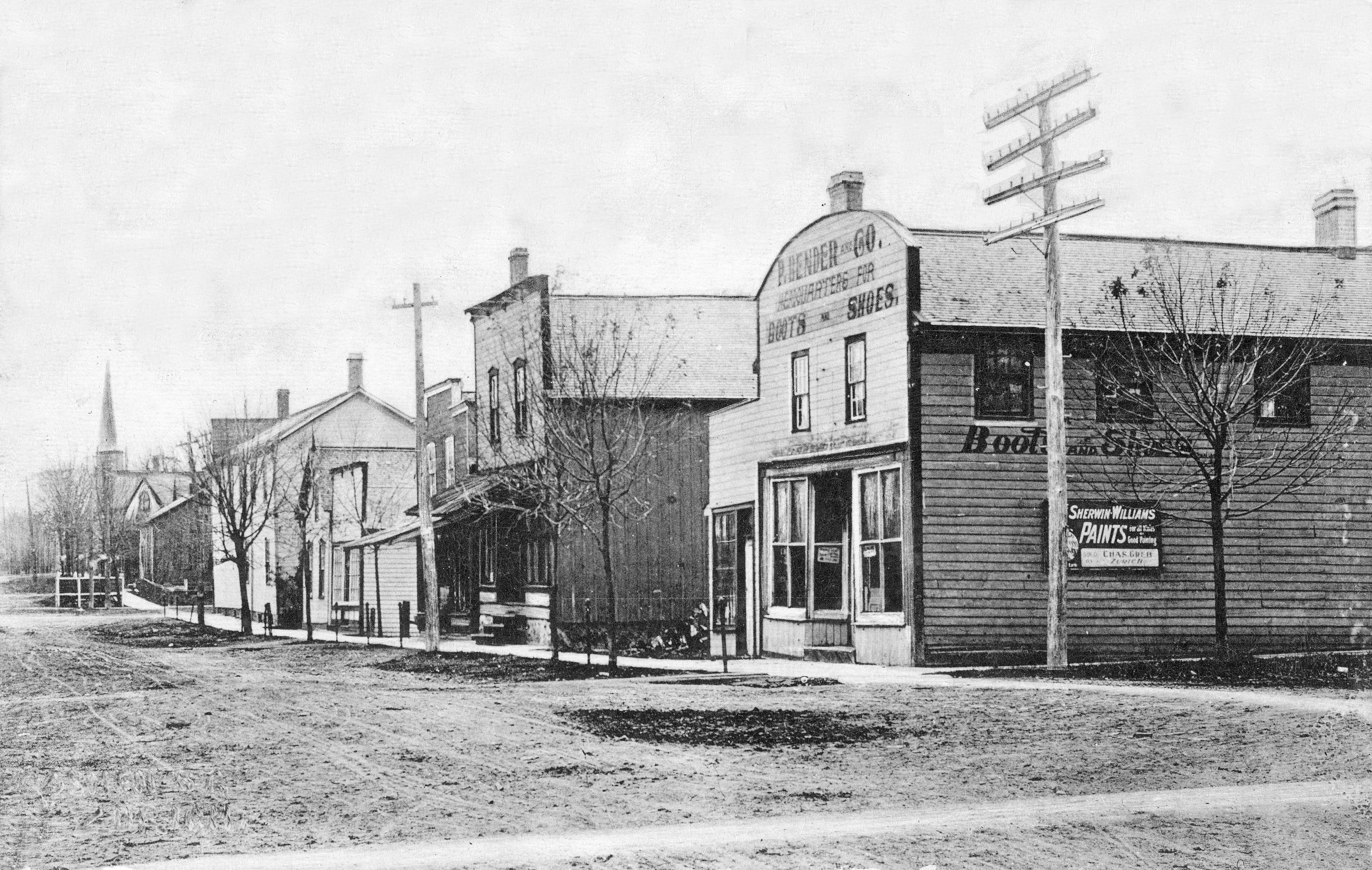 Postcard of Goshen Street, Zurich, Ontario. Visible businesses P. Benders and Co. headquarters for Boats and Shoes. The steeple in the background is the Lutheran Church.